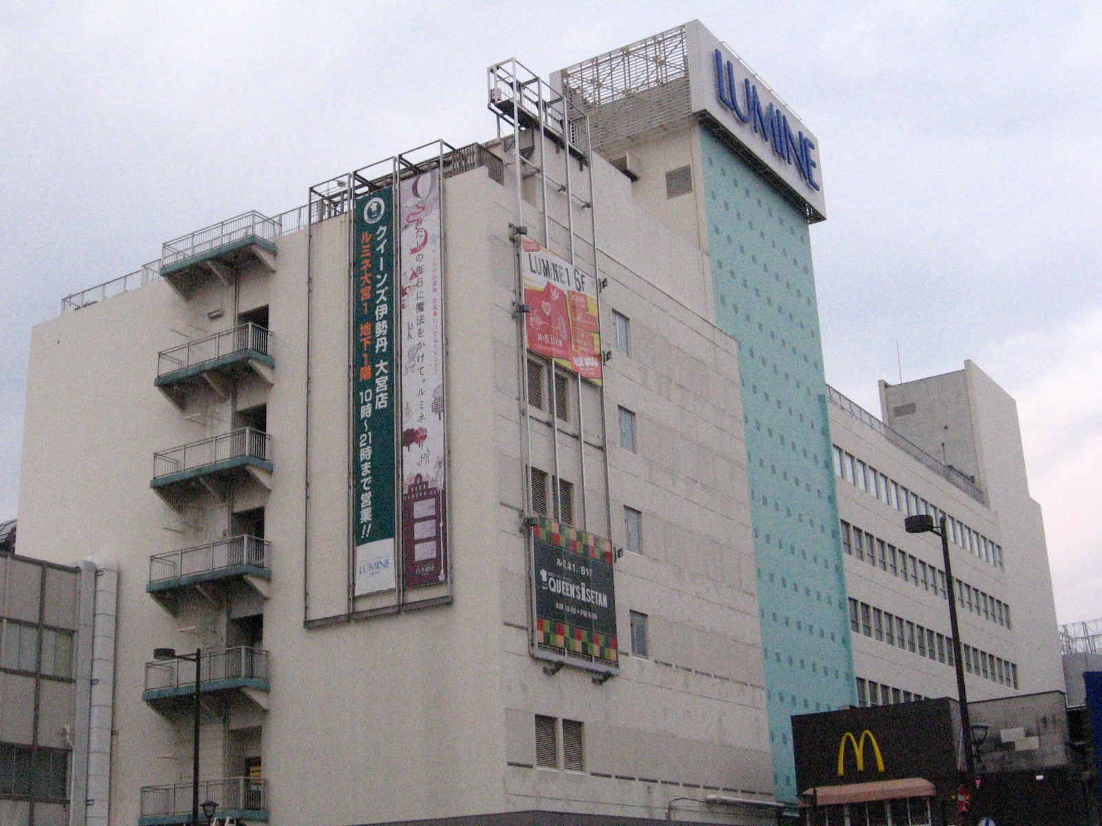 Omiya Lumine